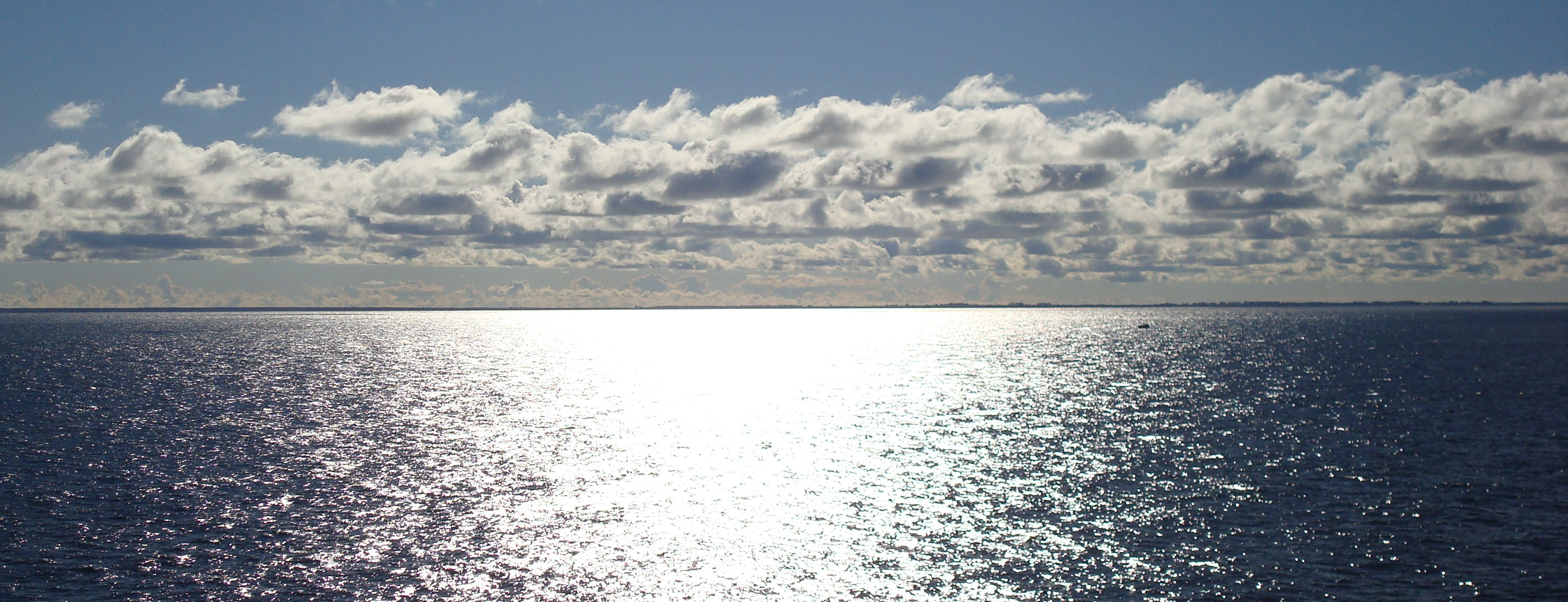 The empty Baltic Sea with clouds (taken from the ferry Rostock-Trelleborg near Rostock)